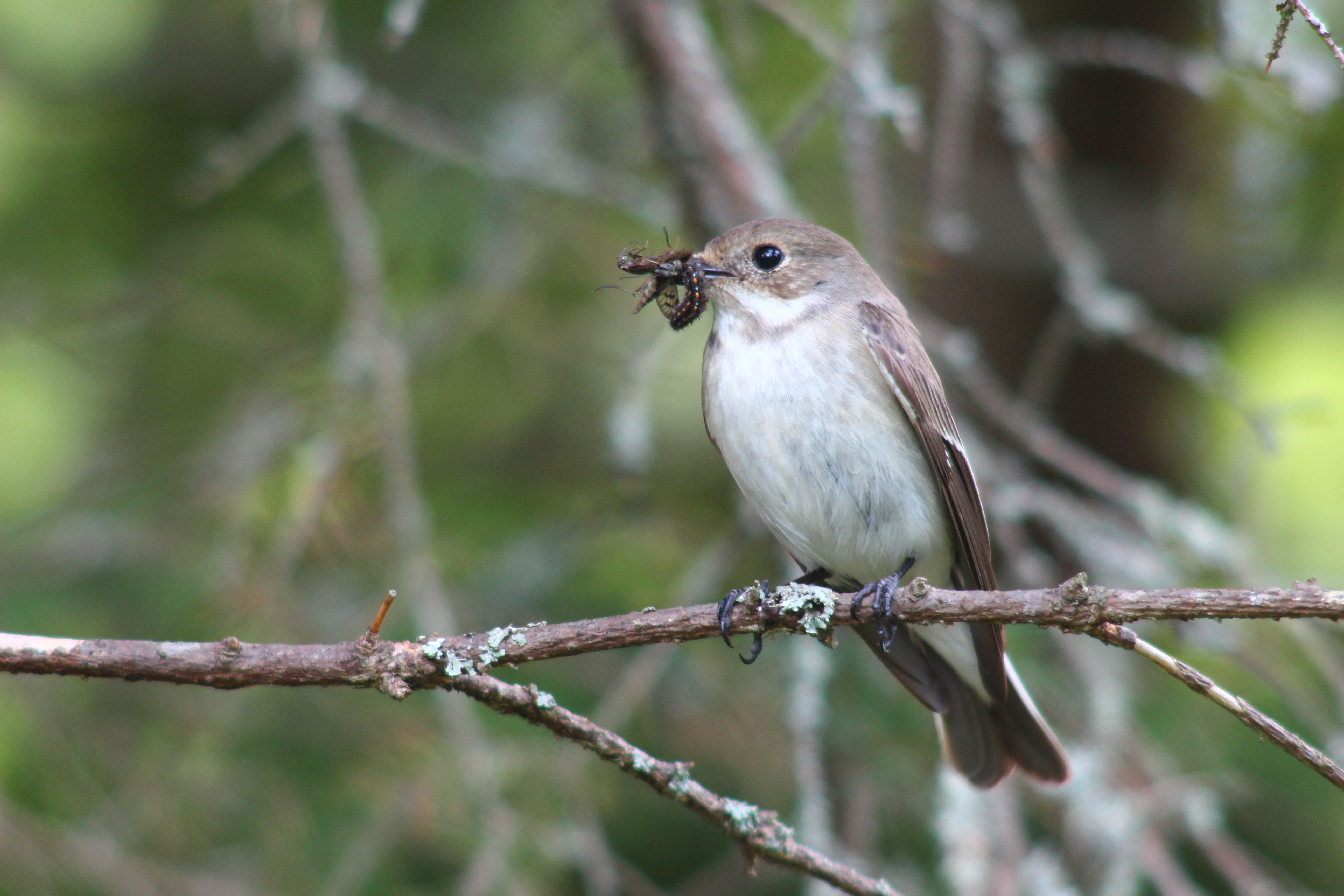 A female European Pied Flycatcher in Finland. It has got an insect in its beak.